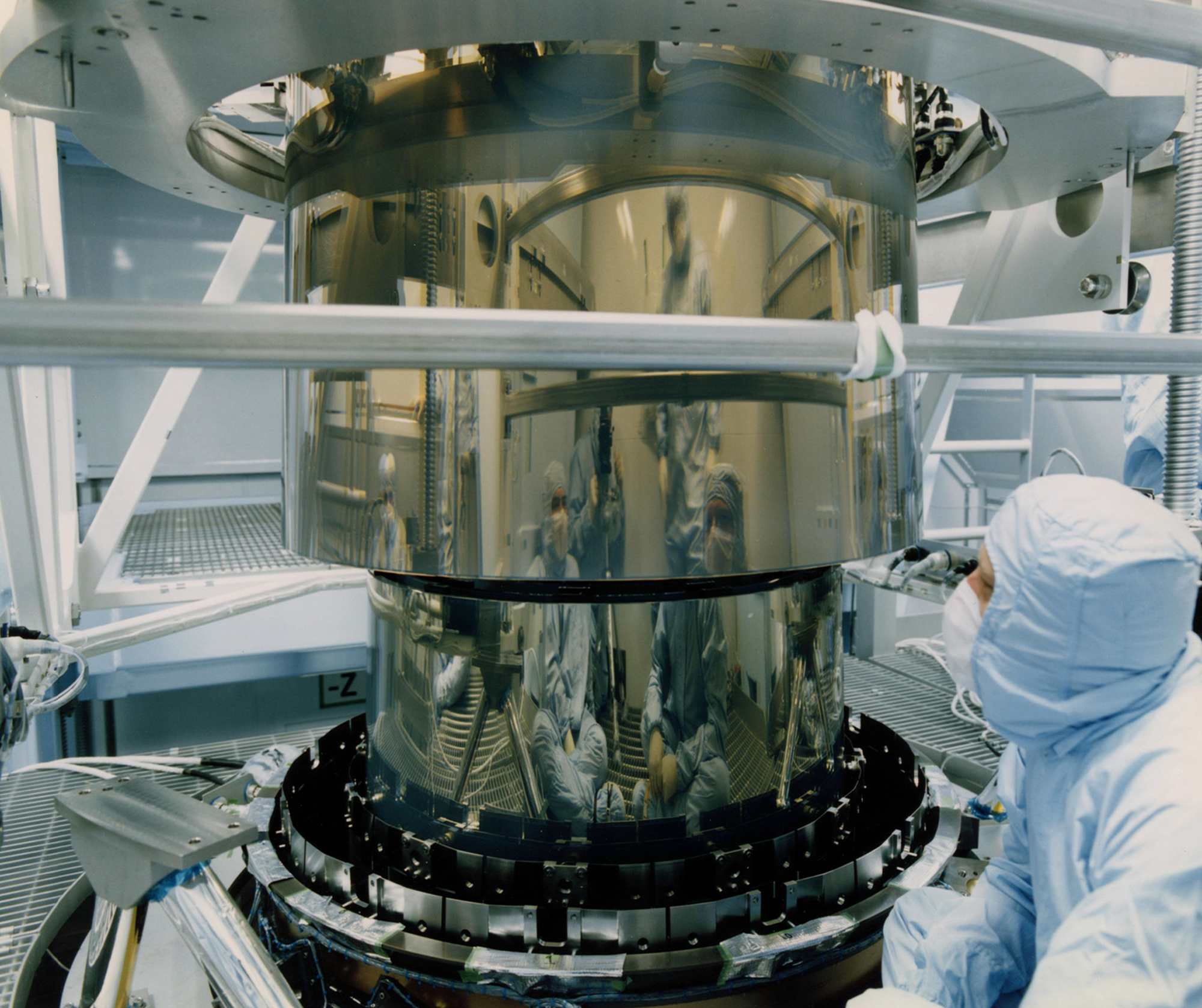 Chandra Mirror Being Assembled at Eastman-Kodak